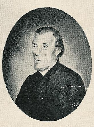 Jeremias van Riemsdijk, Governor-General of the Dutch East Indies